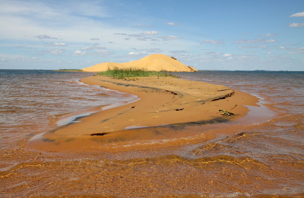 Yacyreta Island was flooded because of the creation of the Paraguay-Argentina dam of the same name. In that place there were dunes that are now semi-flooded. They are of admirable beauty, but need to be preserved. With the dam in the upper Paraná Itaupú and this is closed on both sides of the Rio Parana. More over another dam is foreseen in the middle of both. The Guarani call this "," ysyry Juvy "(the river strangled).